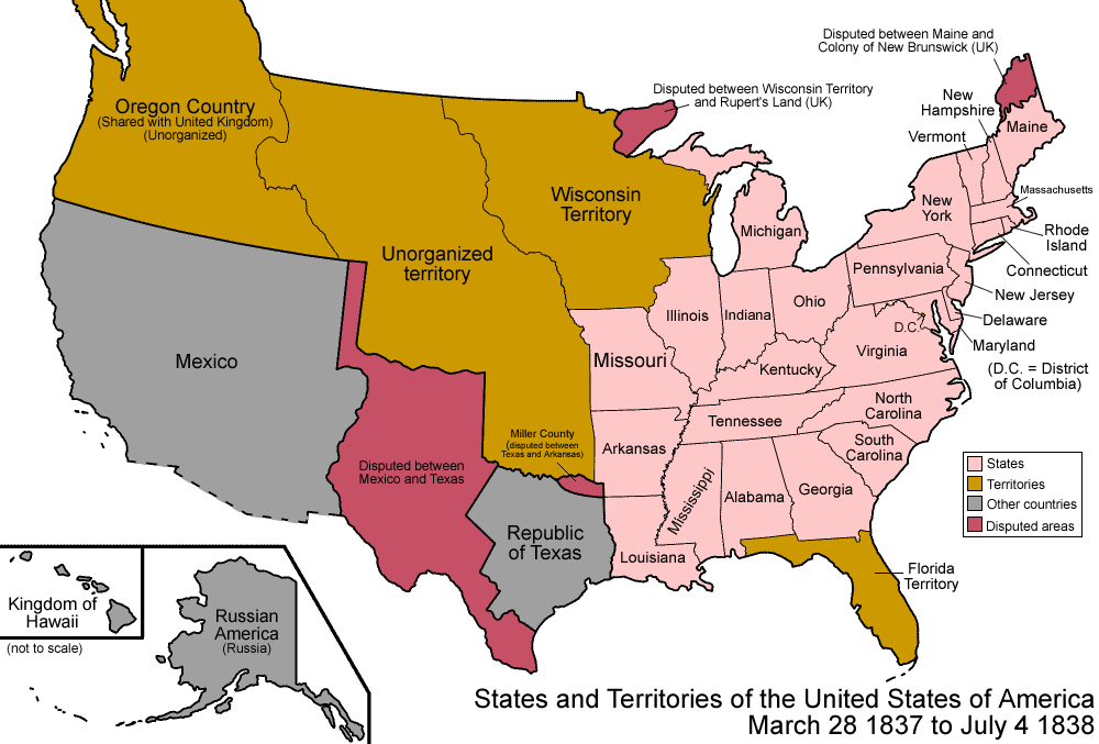 Map of the states and territories of the United States as it was from March 1837 to 1838. On March 28 1837, the Platte Purchase added a triangle of unorganized land to Missouri. On July 4 1838, Iowa Territory was split from Wisconsin Territory.